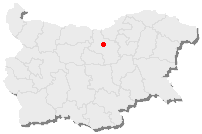 location of Nikjup in bulgaria